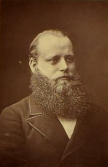 Portrait of Robert Harold Ainsworth Schofield (1851–1883), British medical missionary in China.